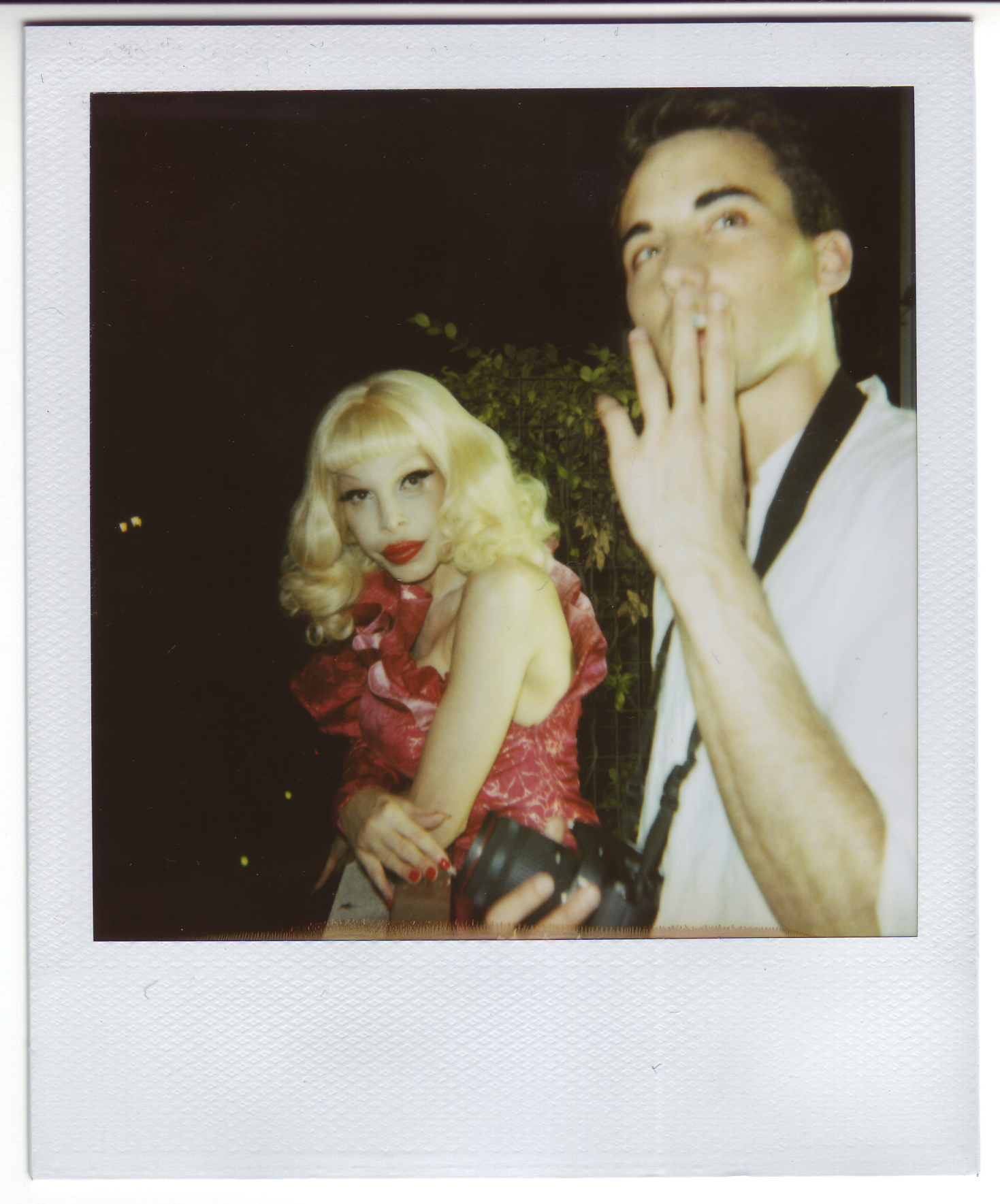 Gabriel Moginot and Amanda Lepore during a photoshoot in Rome.